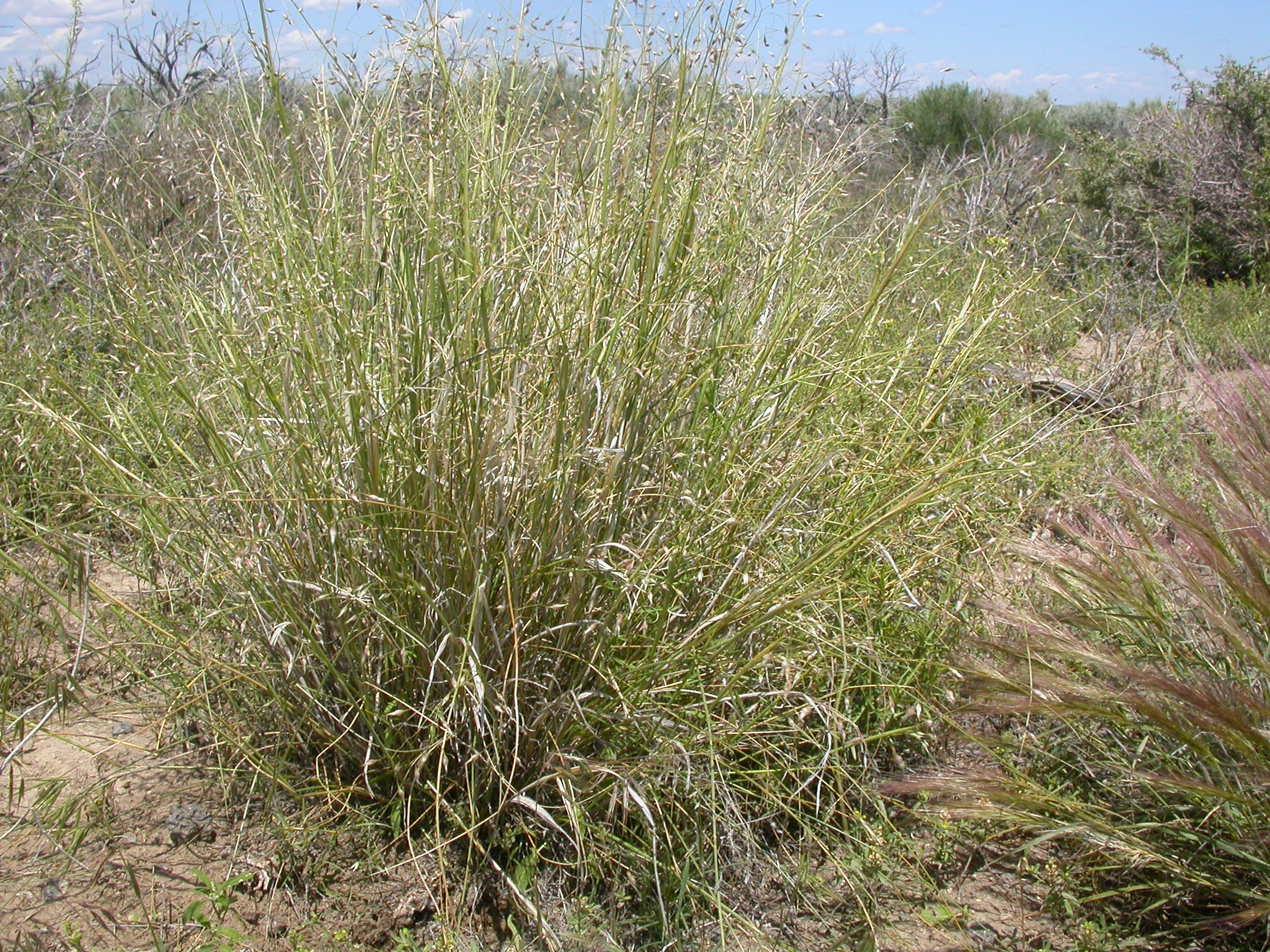 a common perennial bunchgrass in the sagebrush steppe; the open inflorescences with dichotomous branches are characteristic of this species